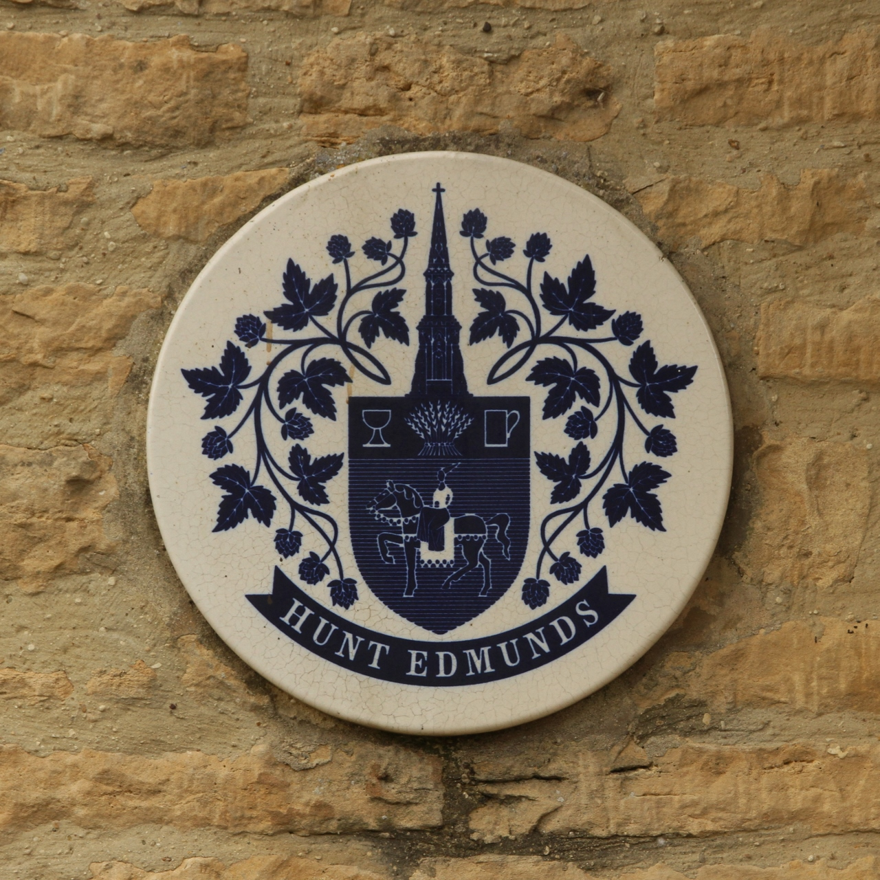 Plaque of the former Hunt, Edmunds brewery on the front of the Chequers Inn, Churchill, Oxfordshire